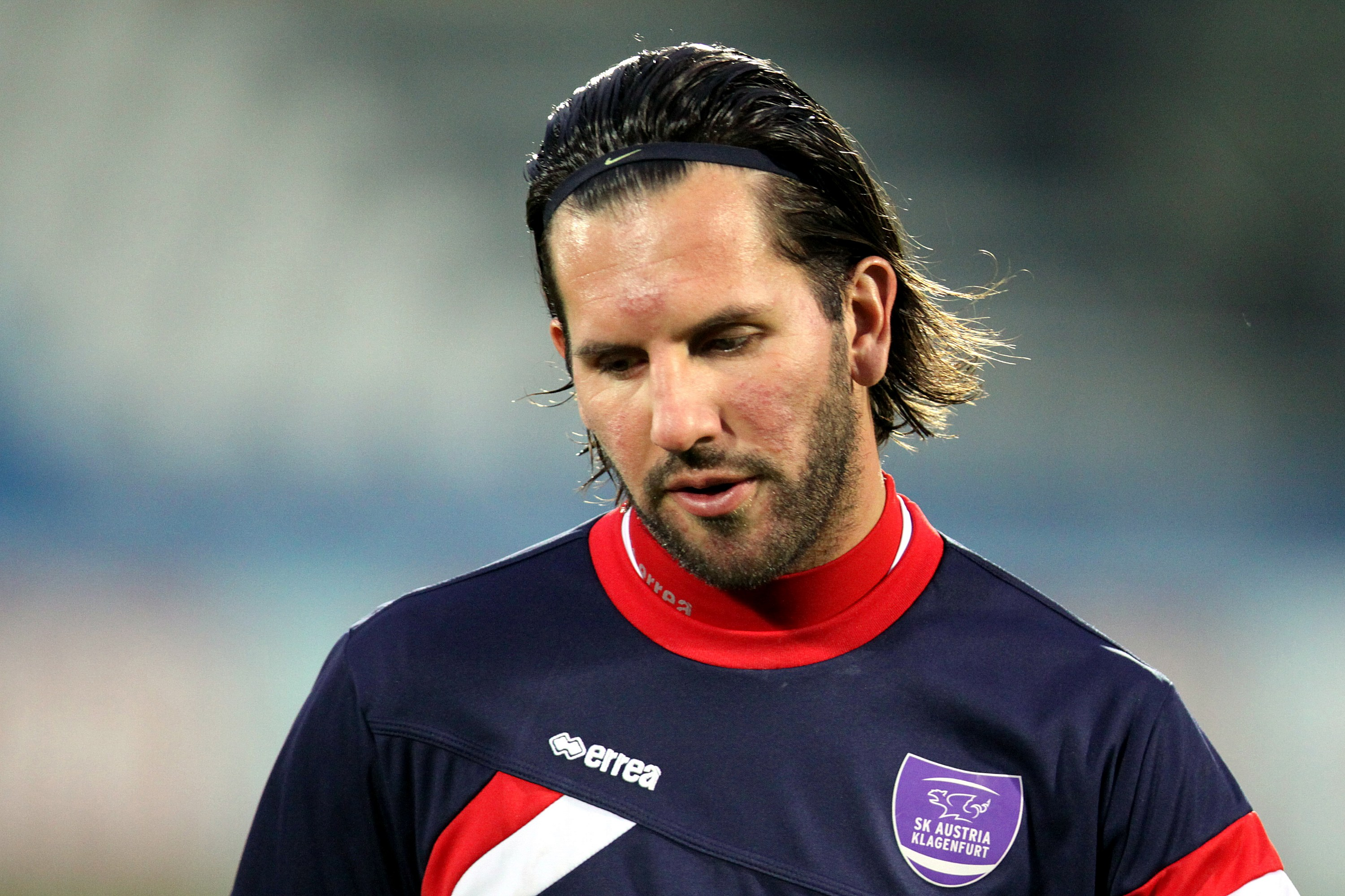 Match of the Erste Liga – SC Wiener Neustadt (blue/white shirts) vs. SK Austria Klagenfurt (red/white shirts) 1–1 (0-1) on 2015-10-20 in the Stadion in Wiener Neustadt – The photo shows Sandro Zakany (SK Austria Klagenfurt).